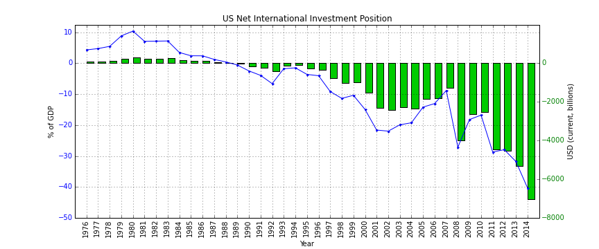 US Net IIP (1976 - 2014)